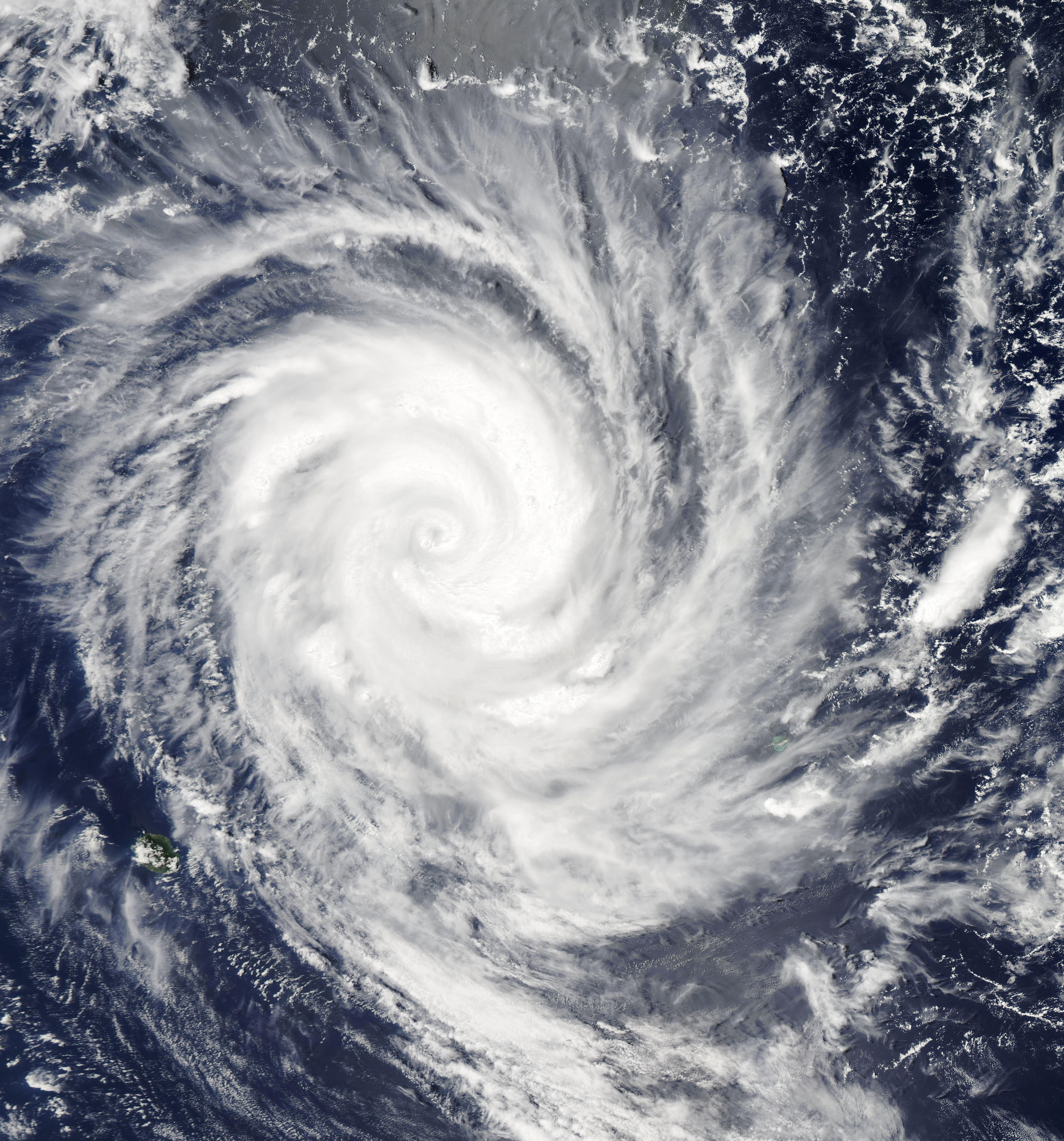 Intense Tropical Cyclone Giovanna on February 11, 2012